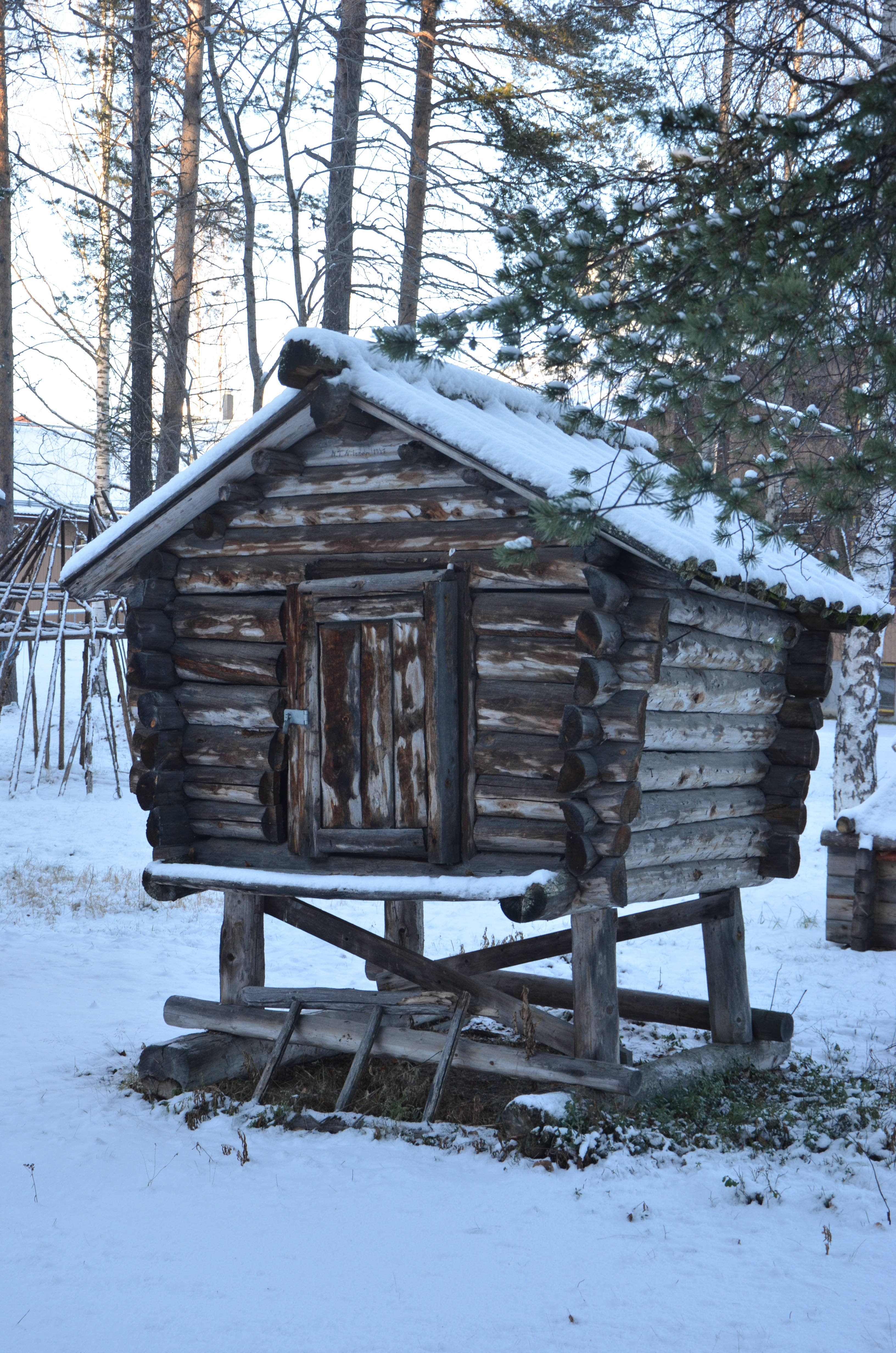 Stolpbod på Samernas utbildningscentrum i Jokkmokk